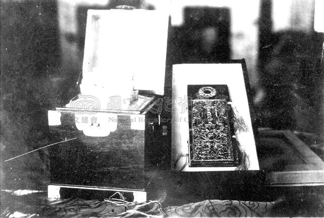 Dalai Lama's seal